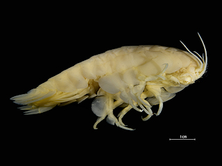 Giant amphipod.